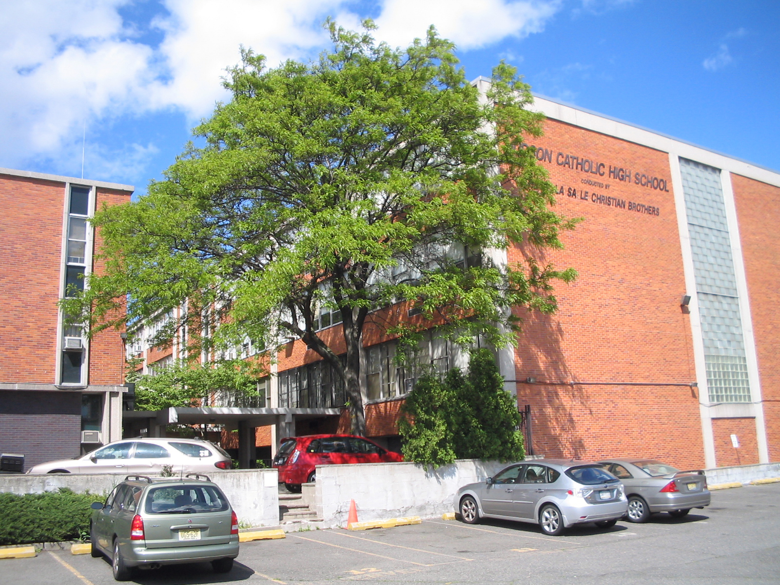 Hudson Catholic Regional High School at Montgomery Street and Bergen Avenue in Jersey City, New Jersey. The photo is taken from the school parking lot.